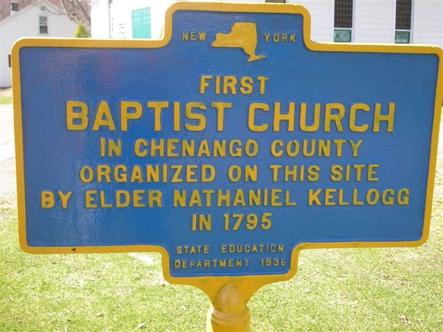 Historic marker of the first Baptist Church in Chenango County. Organized by Elder Nathaniel Kellogg in 1796.